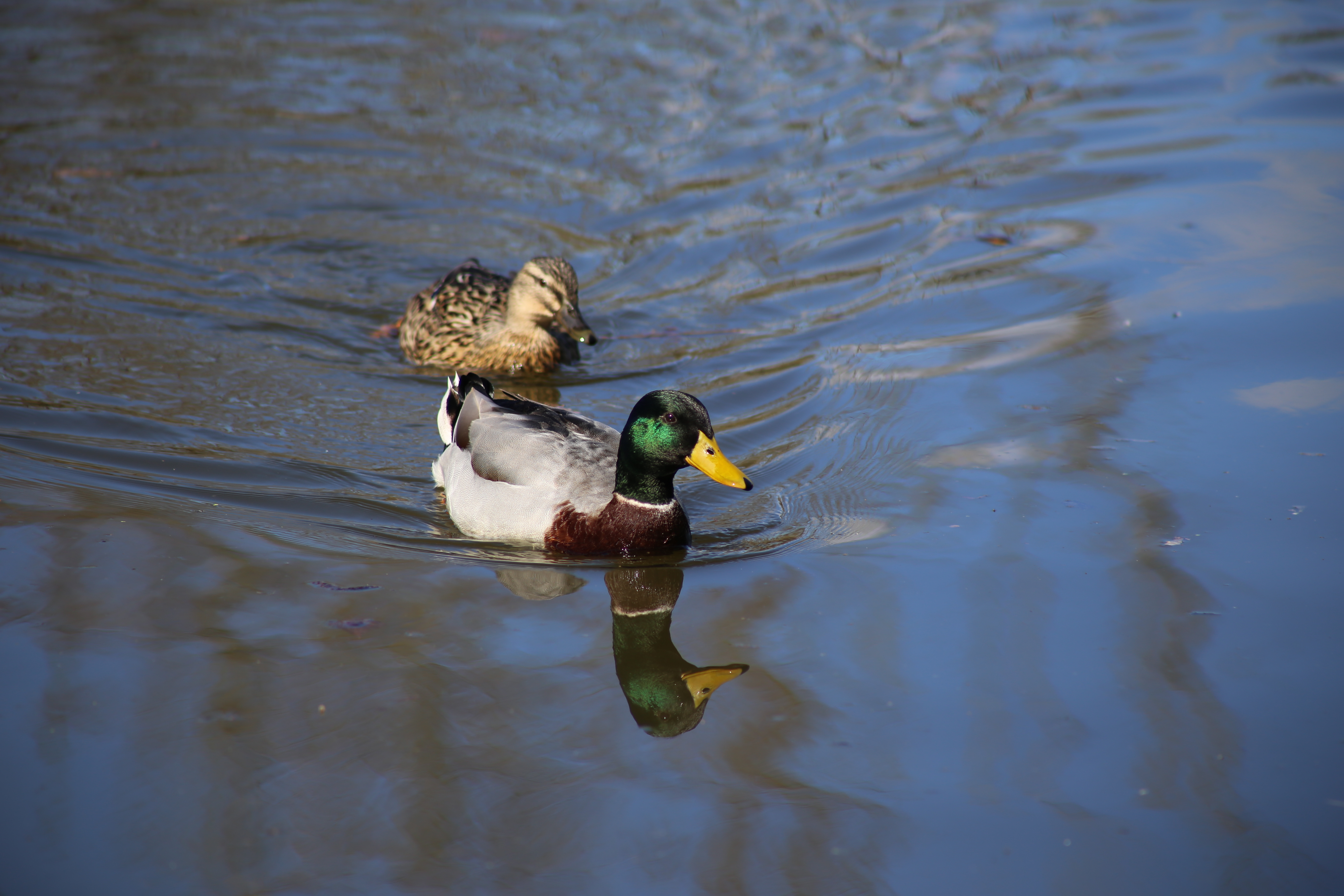 mallard